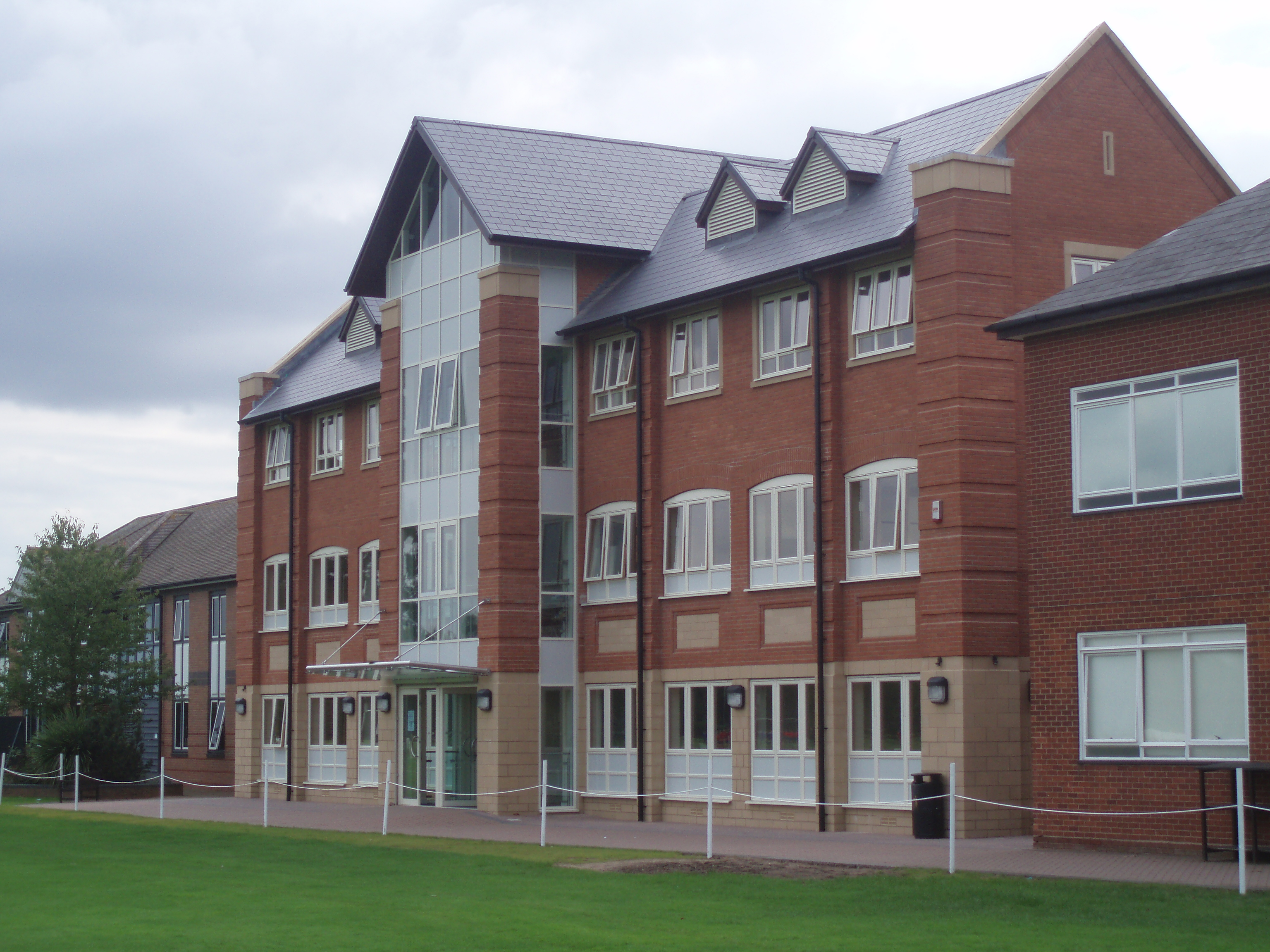 Thornton Building, Warwick School, Warwick, England